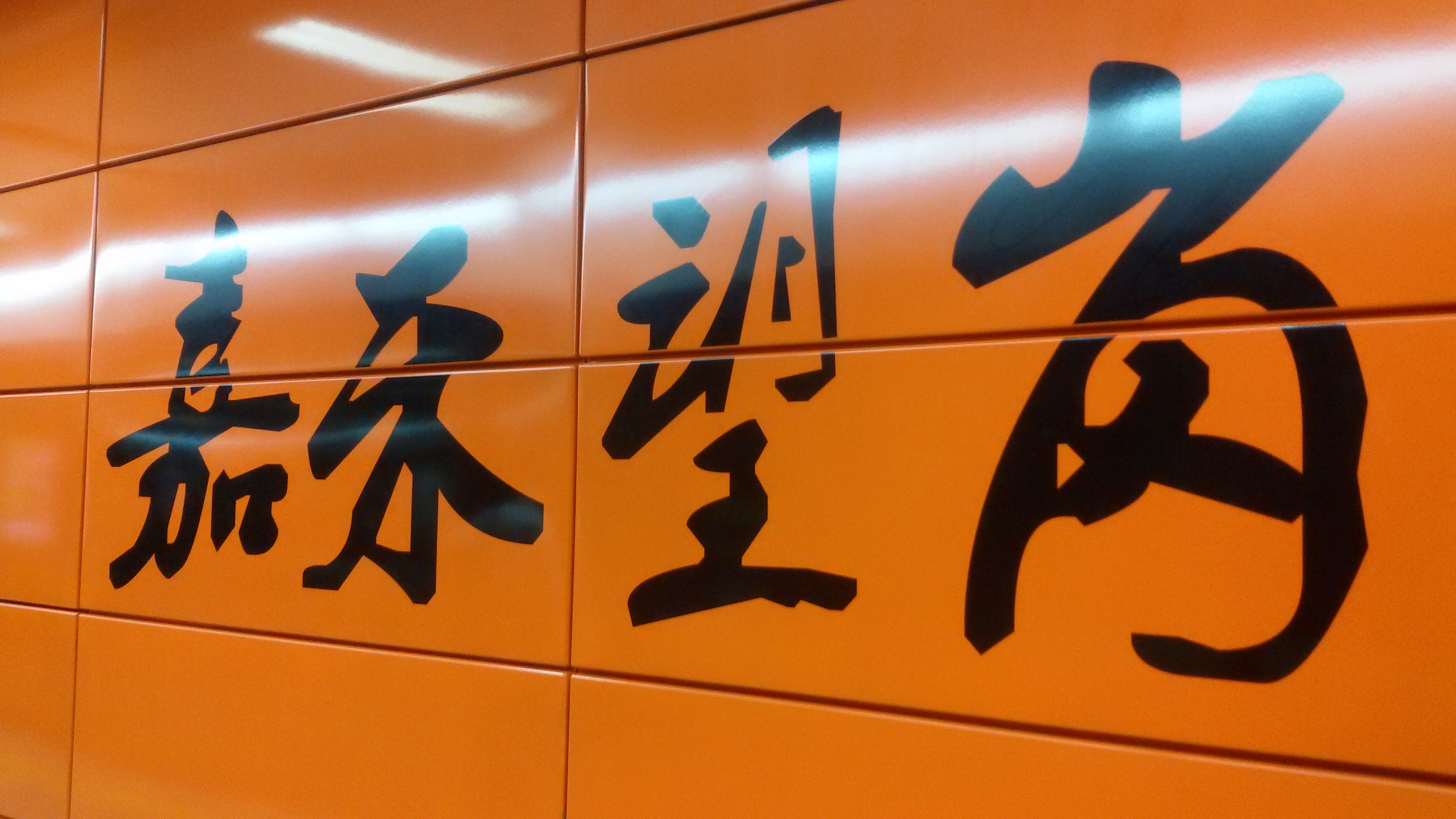 STATION NAME for Jiahe Wanggang Station (Line 2 & Line 3), Guangzhou Metro.